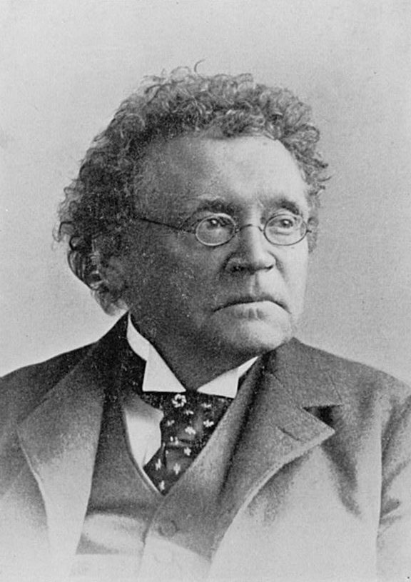 Francis J. Child, head-and-shoulders portrait, facing right.